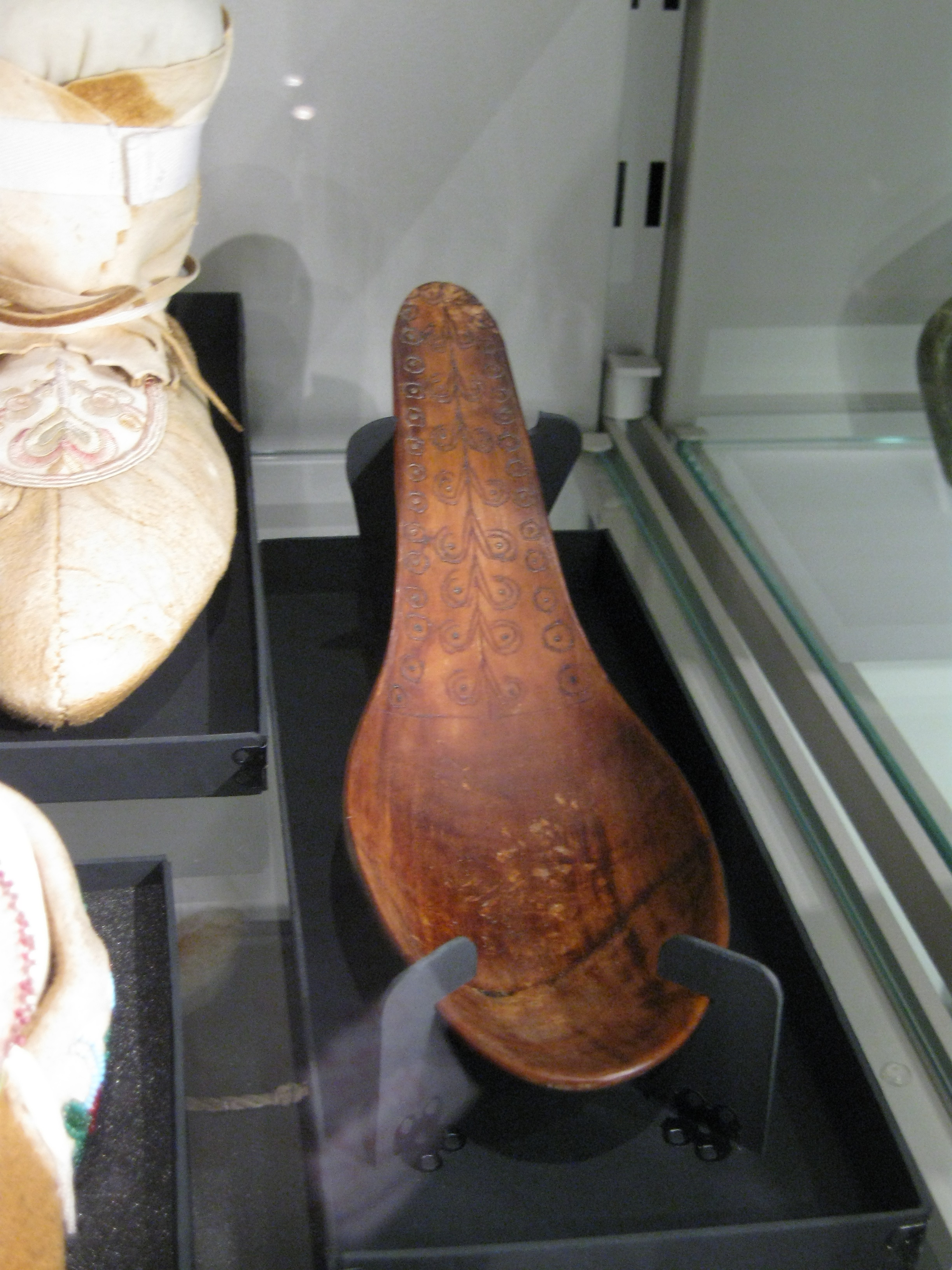 A traditional Dene spoon on permanent display at the UBC Museum of Anthropology in Vancouver, Canada.